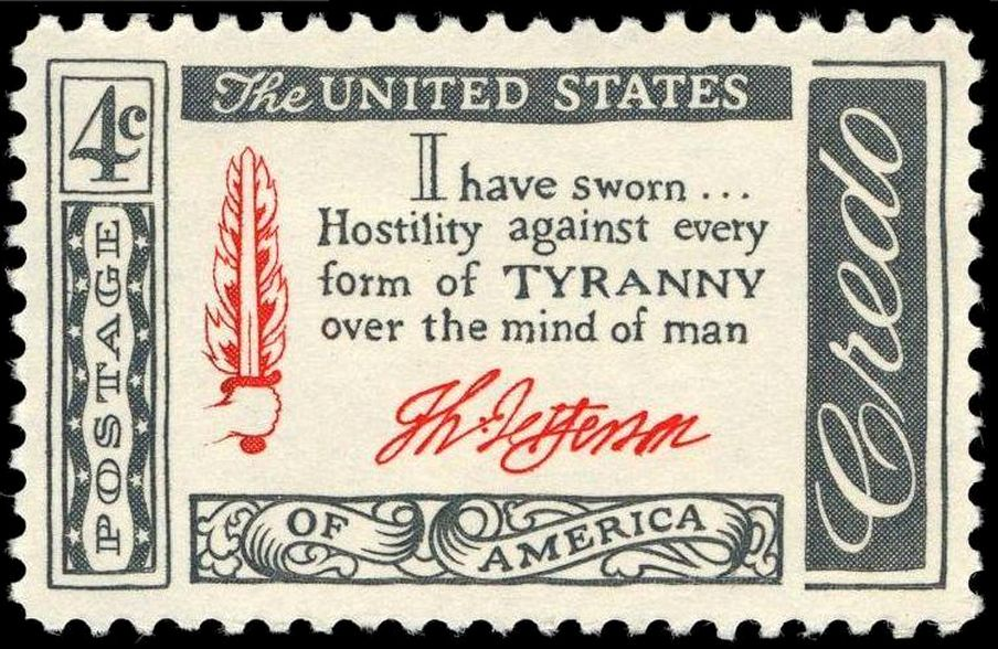 Image of US Postage stamp commemorating Thomas Jefferson quote